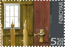 Stamp FO 576 of the Faroe Islands: The church of Sandur